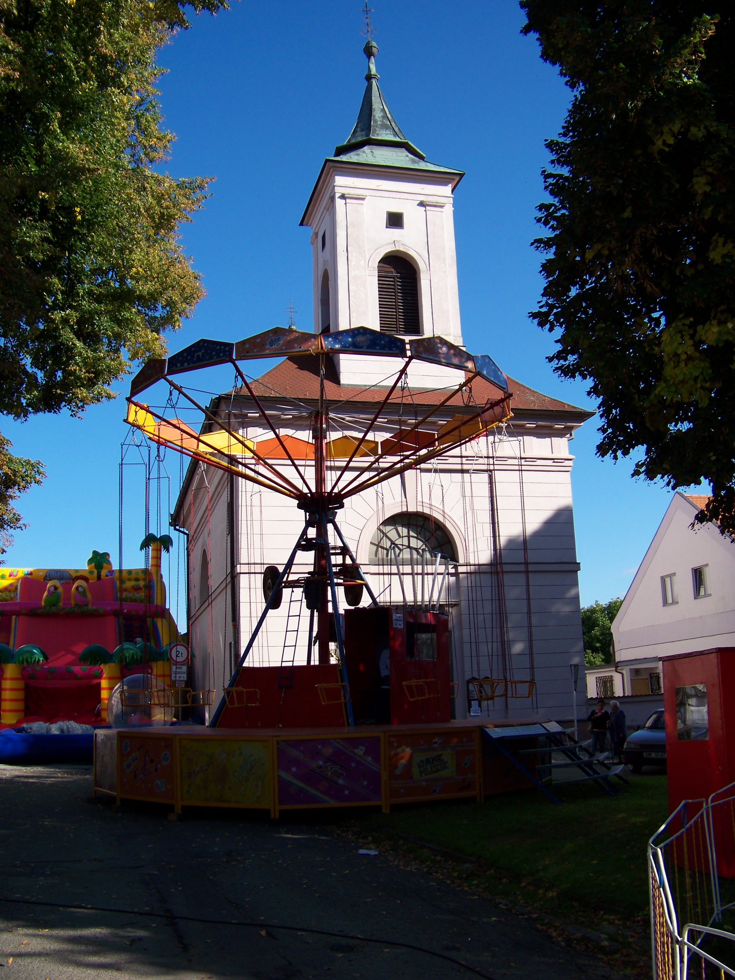 Sezimovo Ústí, Tábor District, South Bohemian Region, the Czech Republic. Hus Square, Church of the Exaltation of the Holy Cross and a swing carousel.